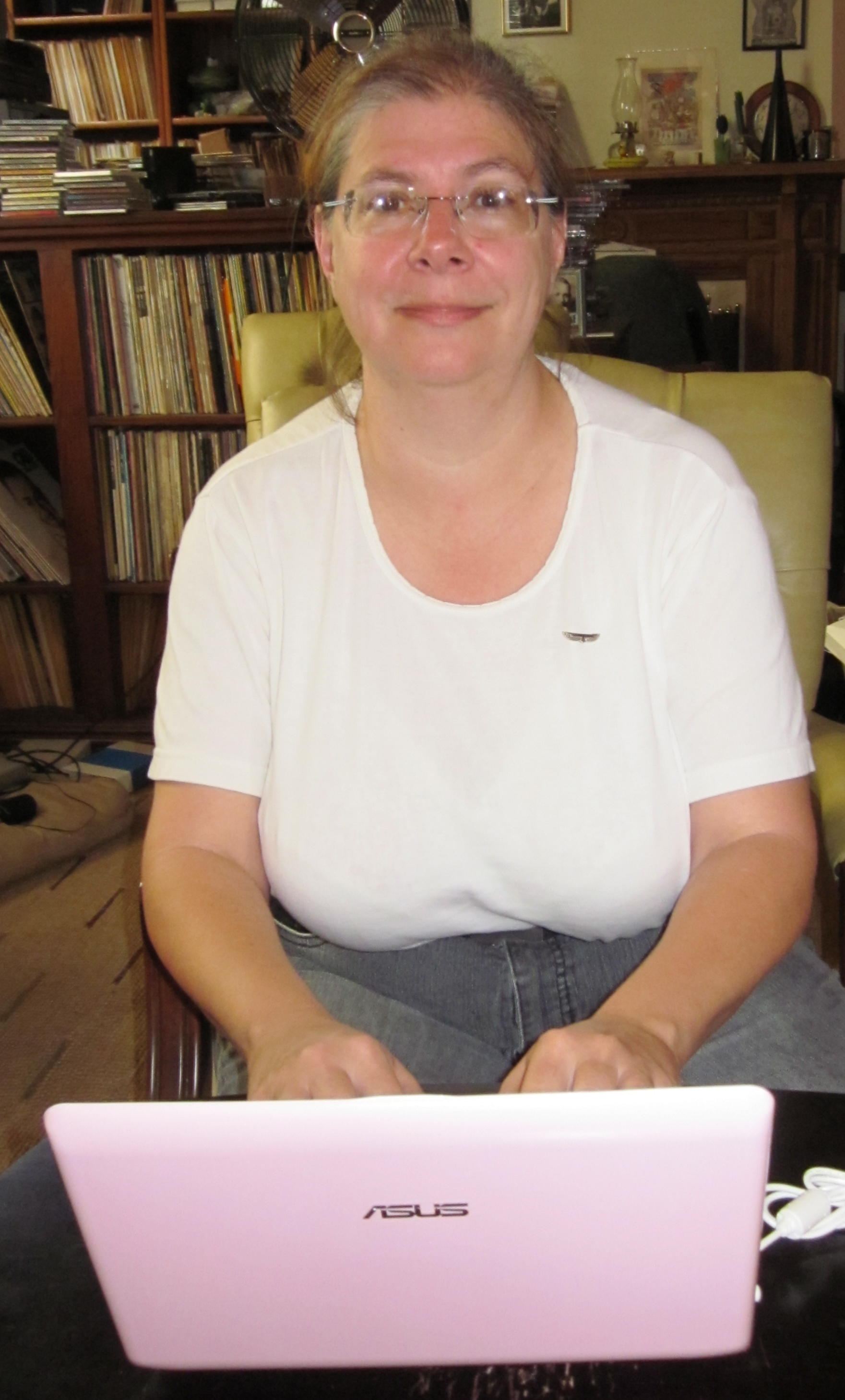 Ms. Hollie with her new little pink "ASUS" laptop computer. New Orleans.